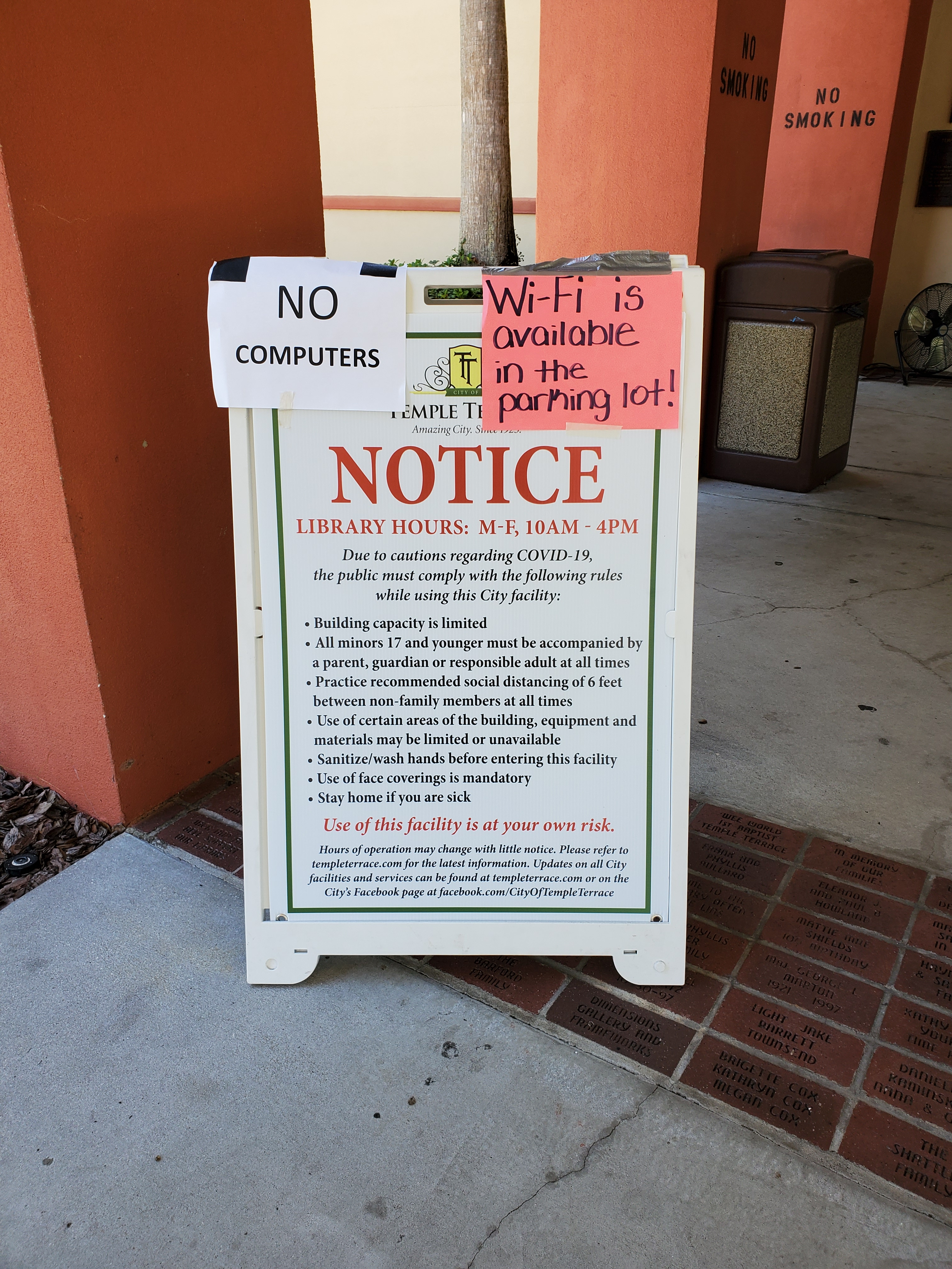 A sign near the entrance to the Temple Terrace Public Library notifying patrons of restrictions during the COVID-19 pandemic.